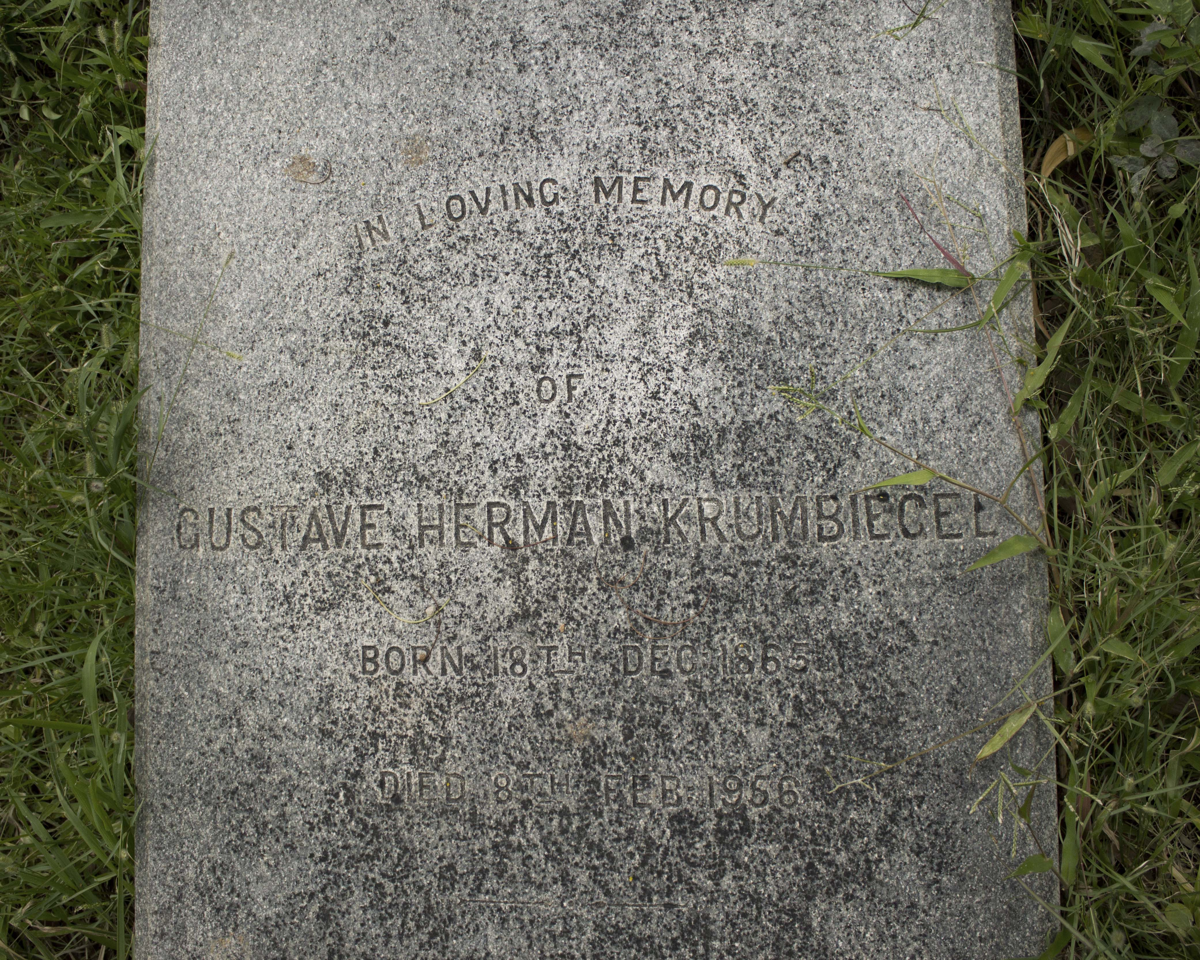 Photo of the gravestone to the German horticulturist Gustav Hermann Krumbiegel, at Bangalore, India.